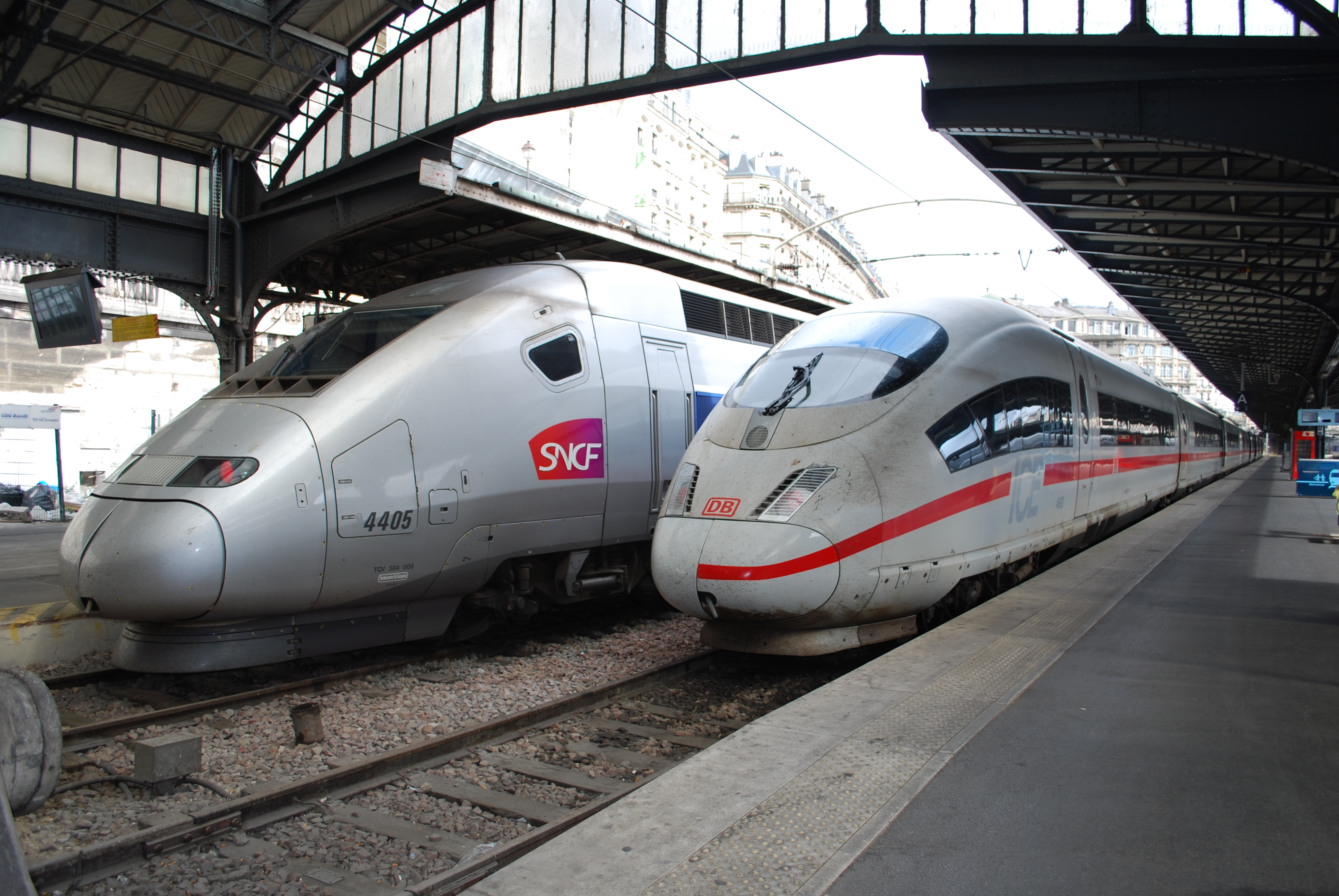 Contrast in high speed front ends: SNCF TGV-POS & DB ICE-3M at Paris Gare de l'Est, 09/12.